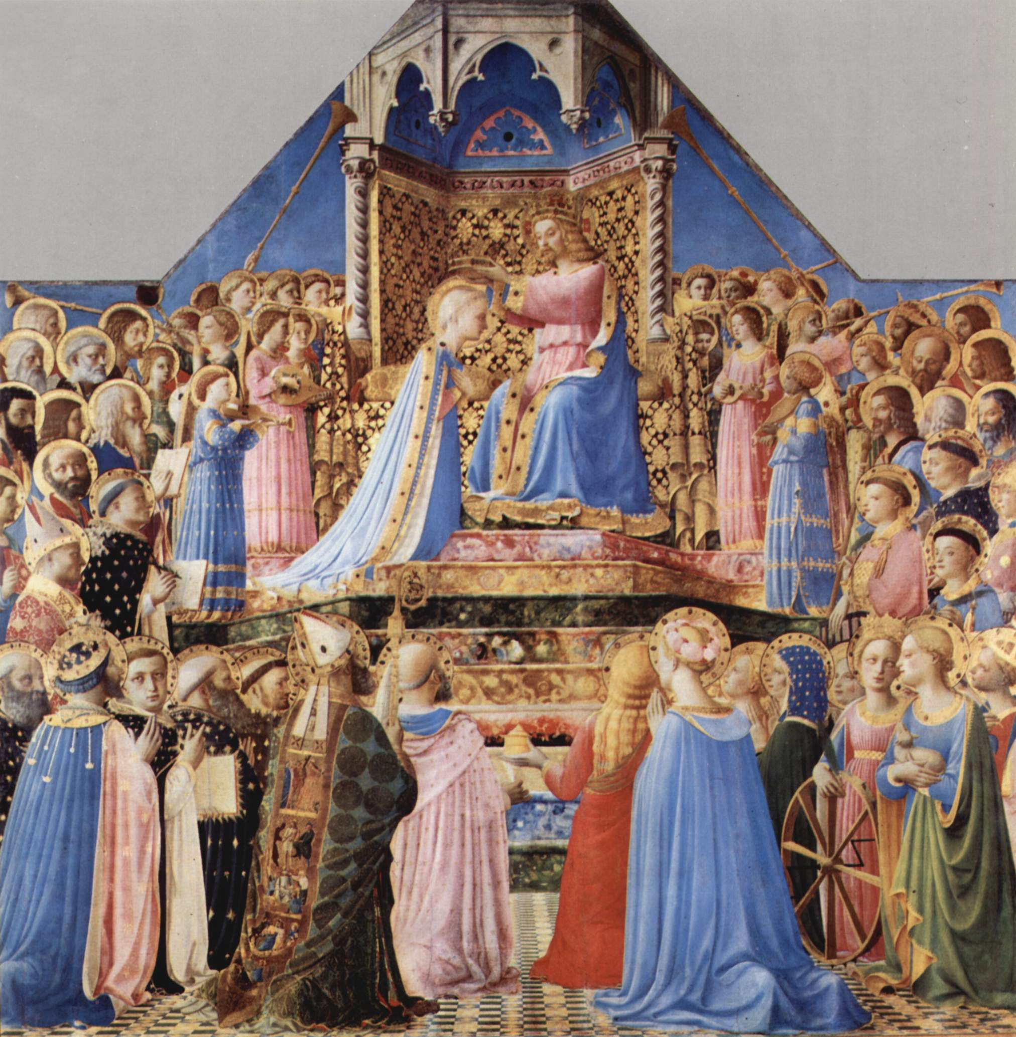 without frame